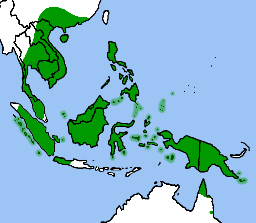 Nepenthes_mirabilis_distribution